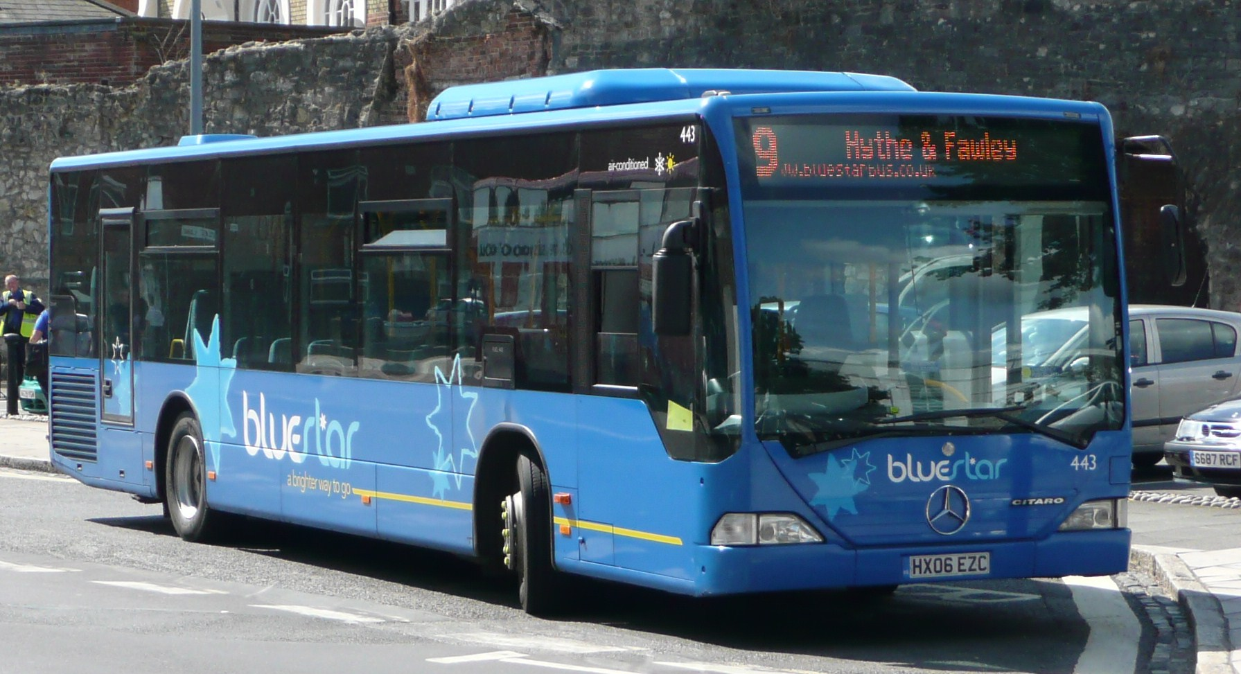 Bluestar's 443 (HX06 EZC), a Mercedes-Benz Citaro in Southampton on route 9.